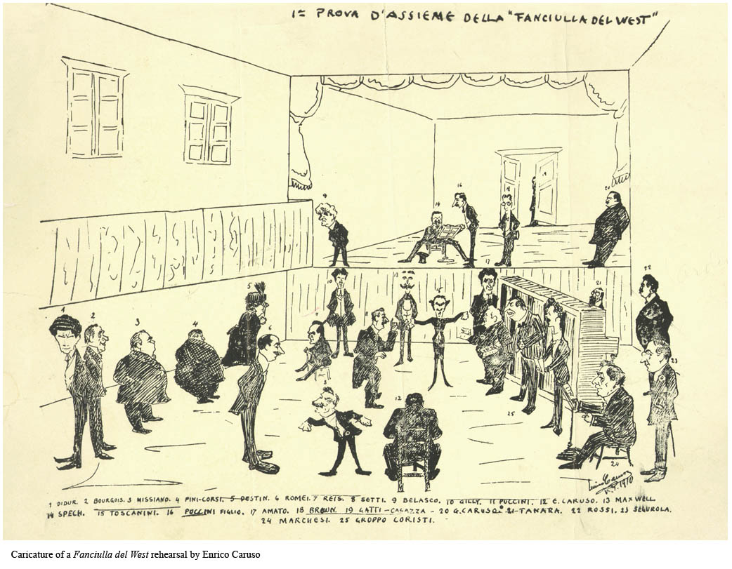 Description: Caruso's caricature of the rehearsals for the world premiere of La fanciulla del West Artist: Enrico Caruso ((February 25, 1873 – August 2, 1921)